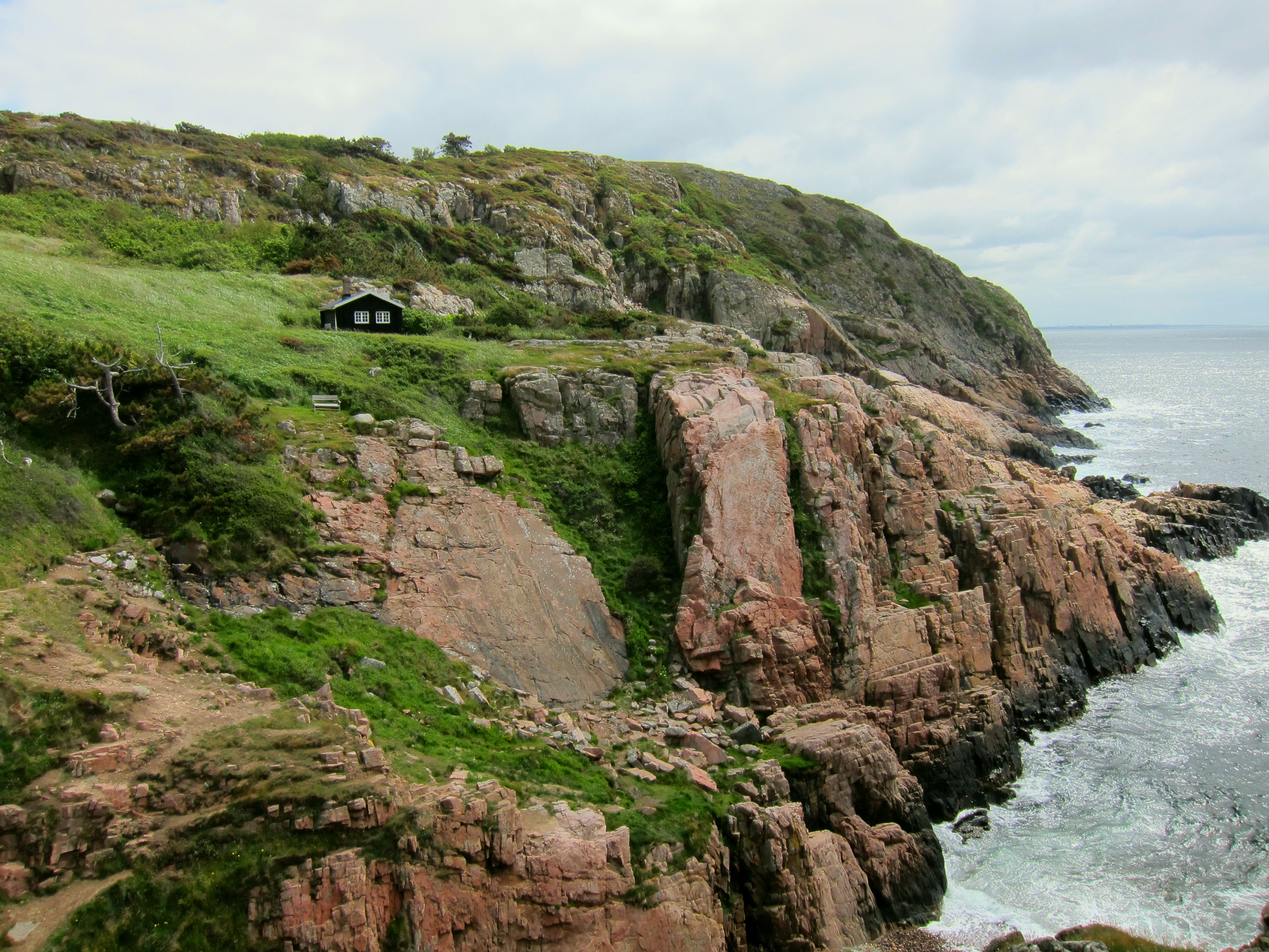 Kullaberg